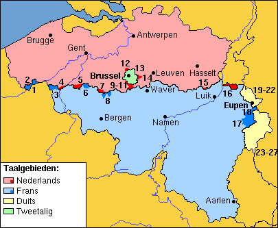 Map of Belgian municipalities with language facilities for speakers of the minority language. Version with Dutch-language place names and legend.